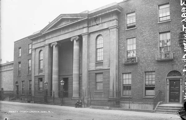 Photograph taken between 1880 and 1914. Format: glass negative Part of: National Library of Ireland Lawrence Collection. For more photographs in this collection see National Library of Ireland catalogue: Reference number: L_CAB_03986